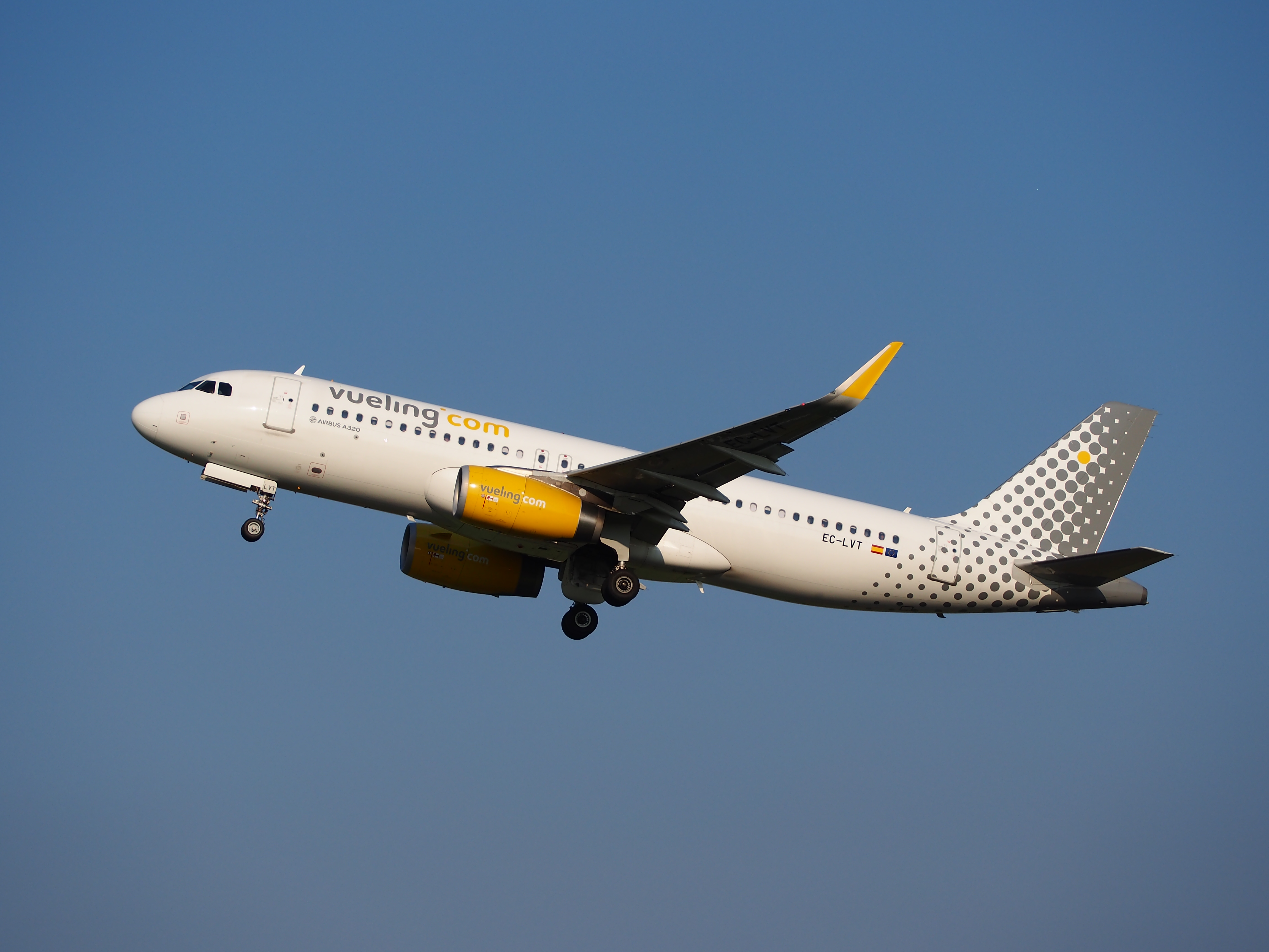 Photographed at Schiphol, Amsterdam Airport.